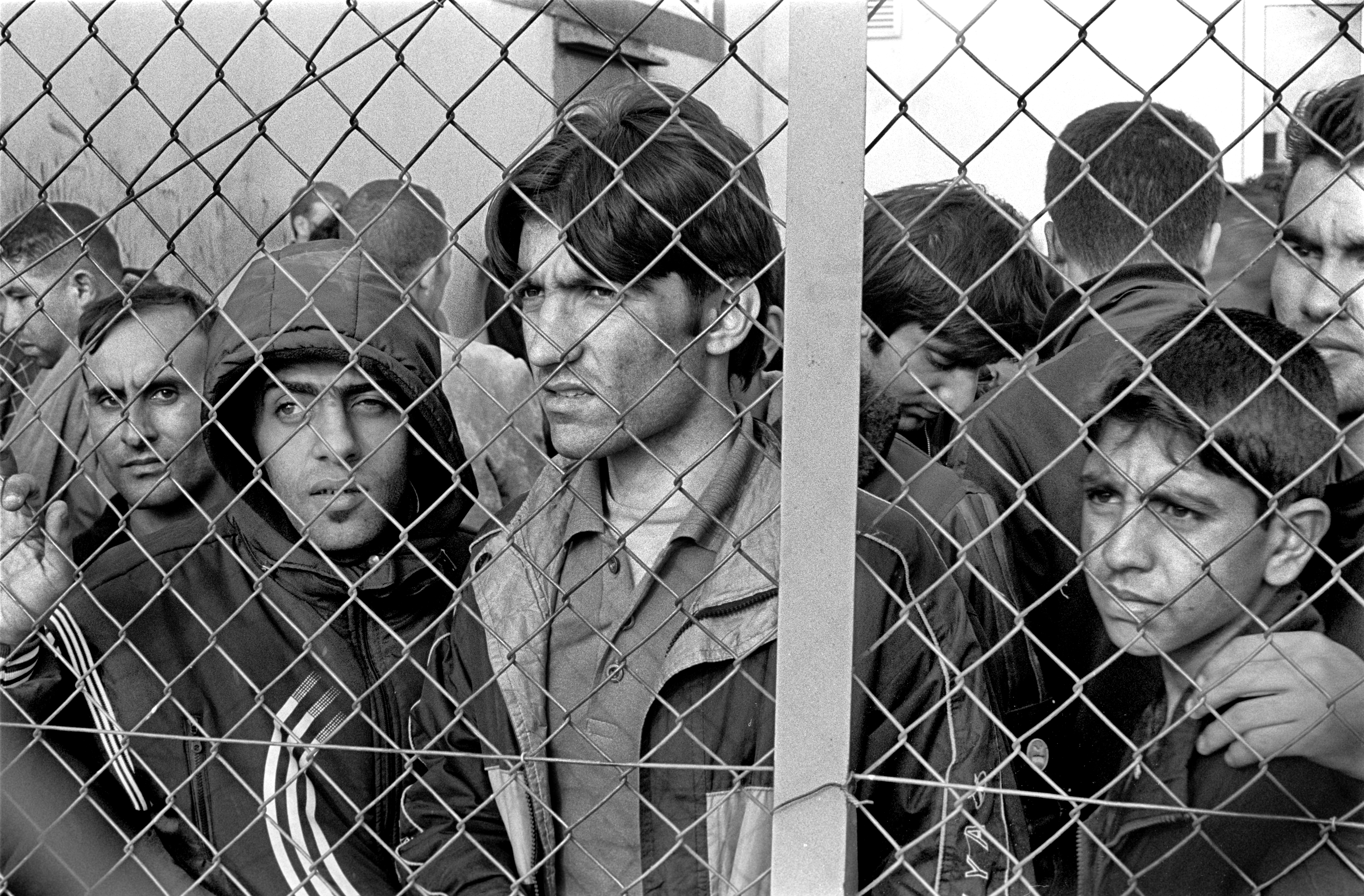 Arrested refugees-immigrants in Fylakio detention center, Evros, Greece.